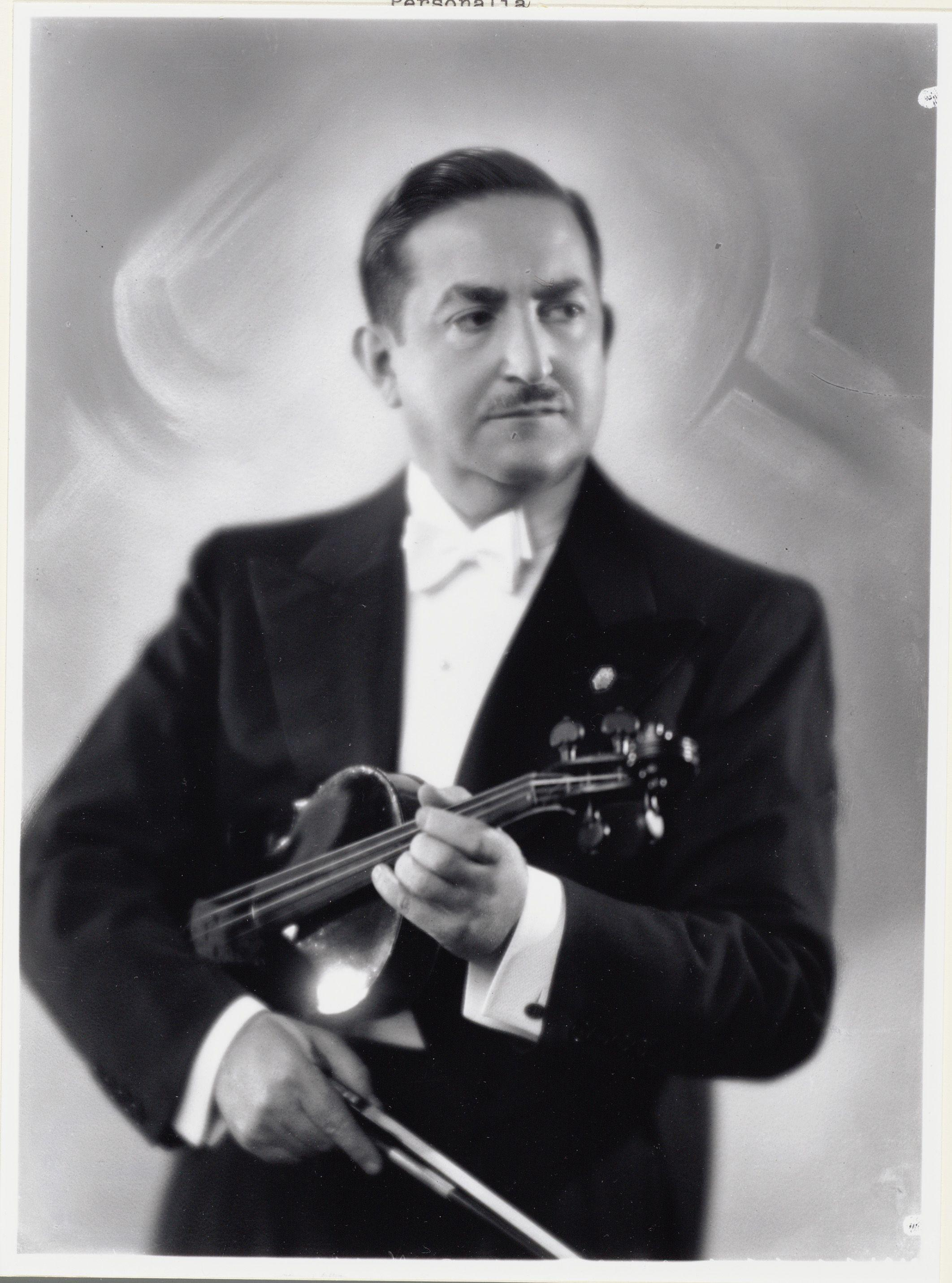 Photograph of Marek Weber by Jacob Merkelbach (1877-1942)